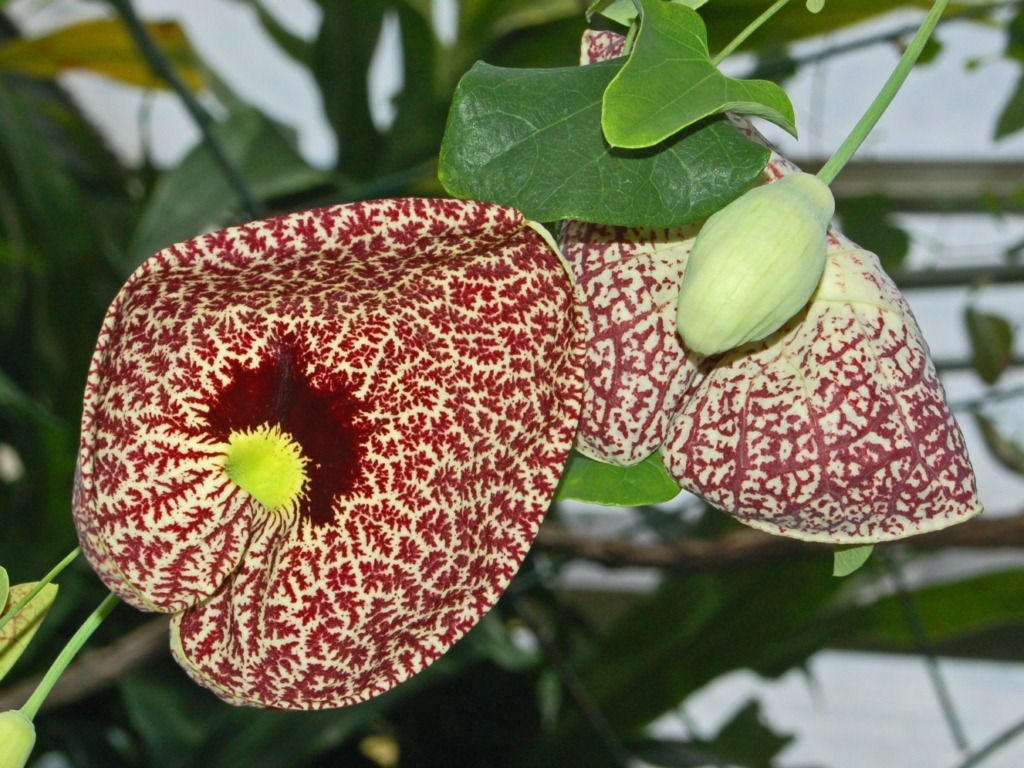 Aristolochia littoralis - Allan Garden of Toronto